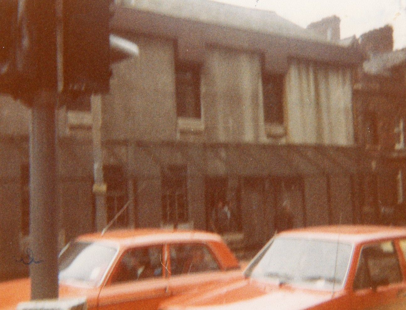 A typical fortified pub in Falls Road, Belfast during the Troubles